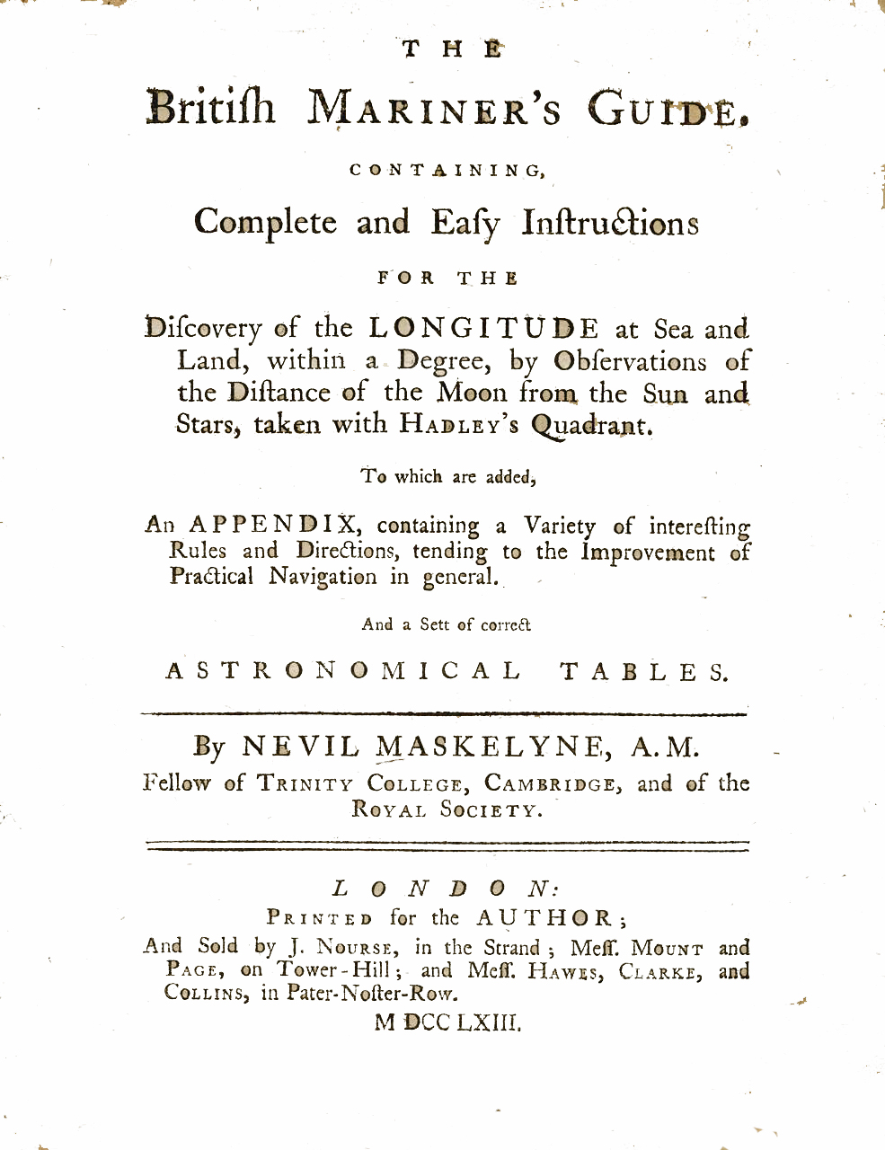 A navigation handbook, edited by Nevil Maskelyne, Astronomer Royal. London 1763